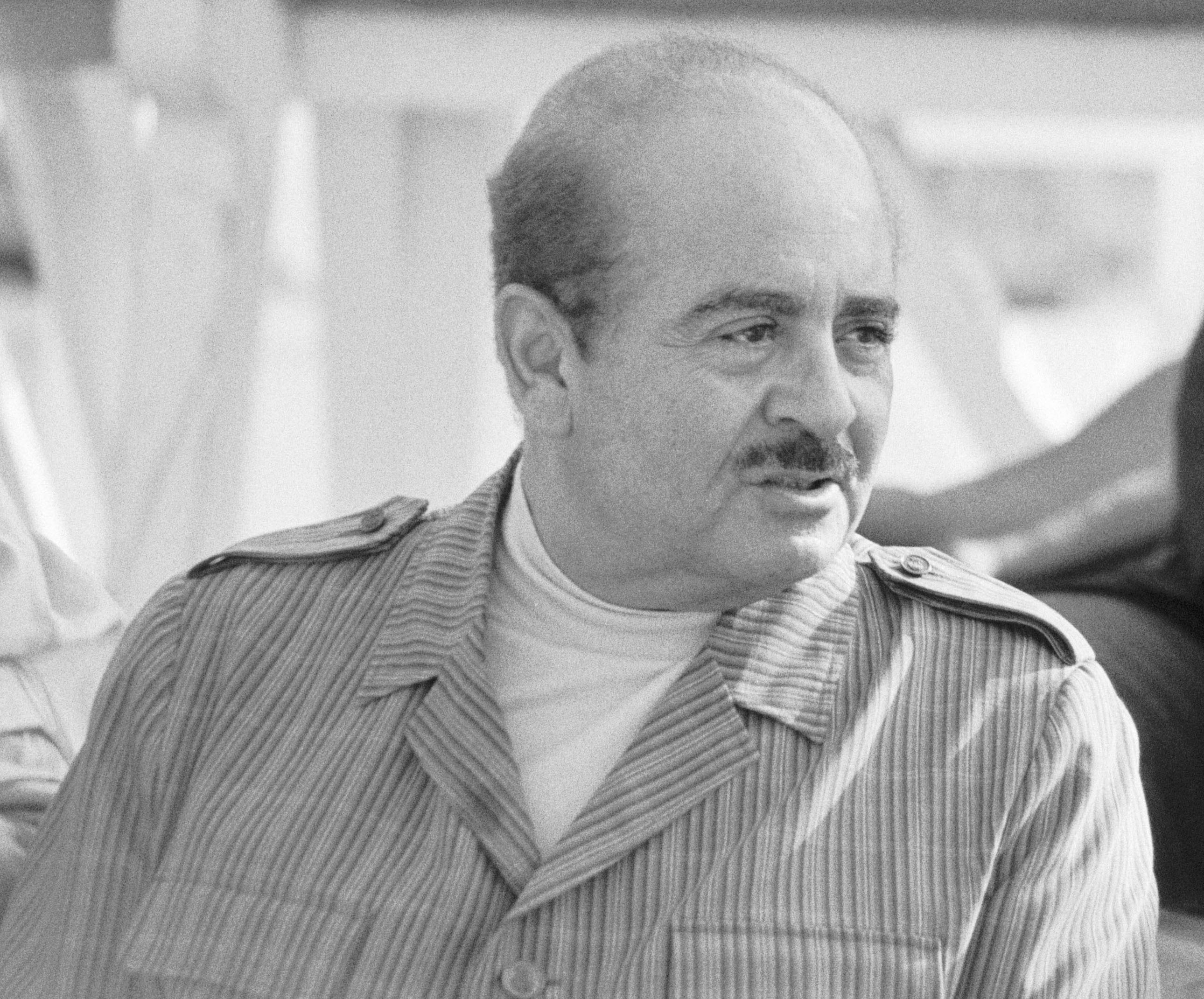 Adnan Khashoggi in Deauville, France in the 1980s